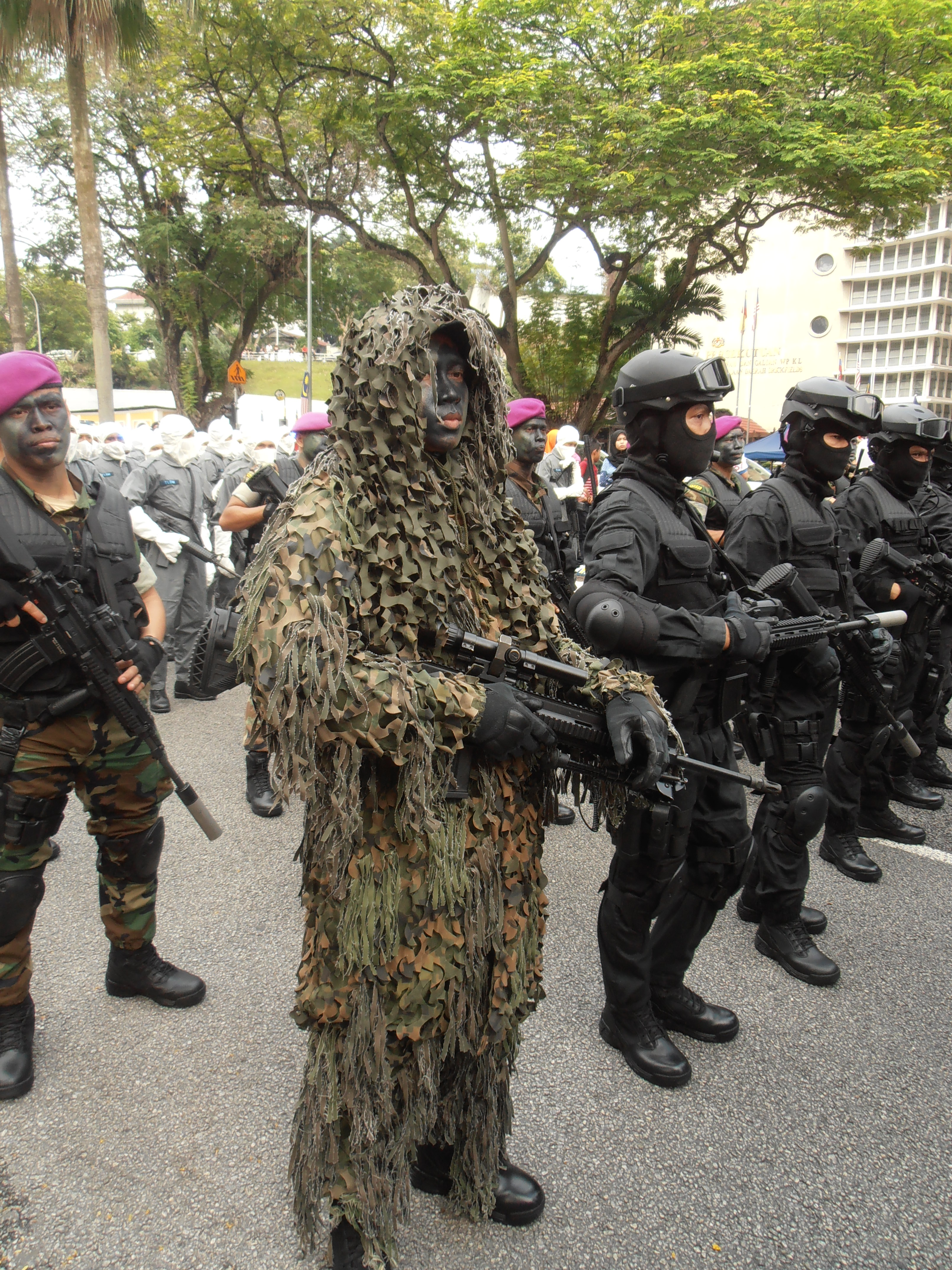 The navy PASKAL sniper operator with Ghillie Suit uniform arms with 7.62mm HK417 Sniper Rifle during on standby during the 57th National Day Parade of Malaysia at Merdeka Square, Kuala Lumpur.